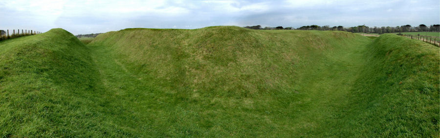 Rispain Camp from the south. Composite photograph by David Kelly.